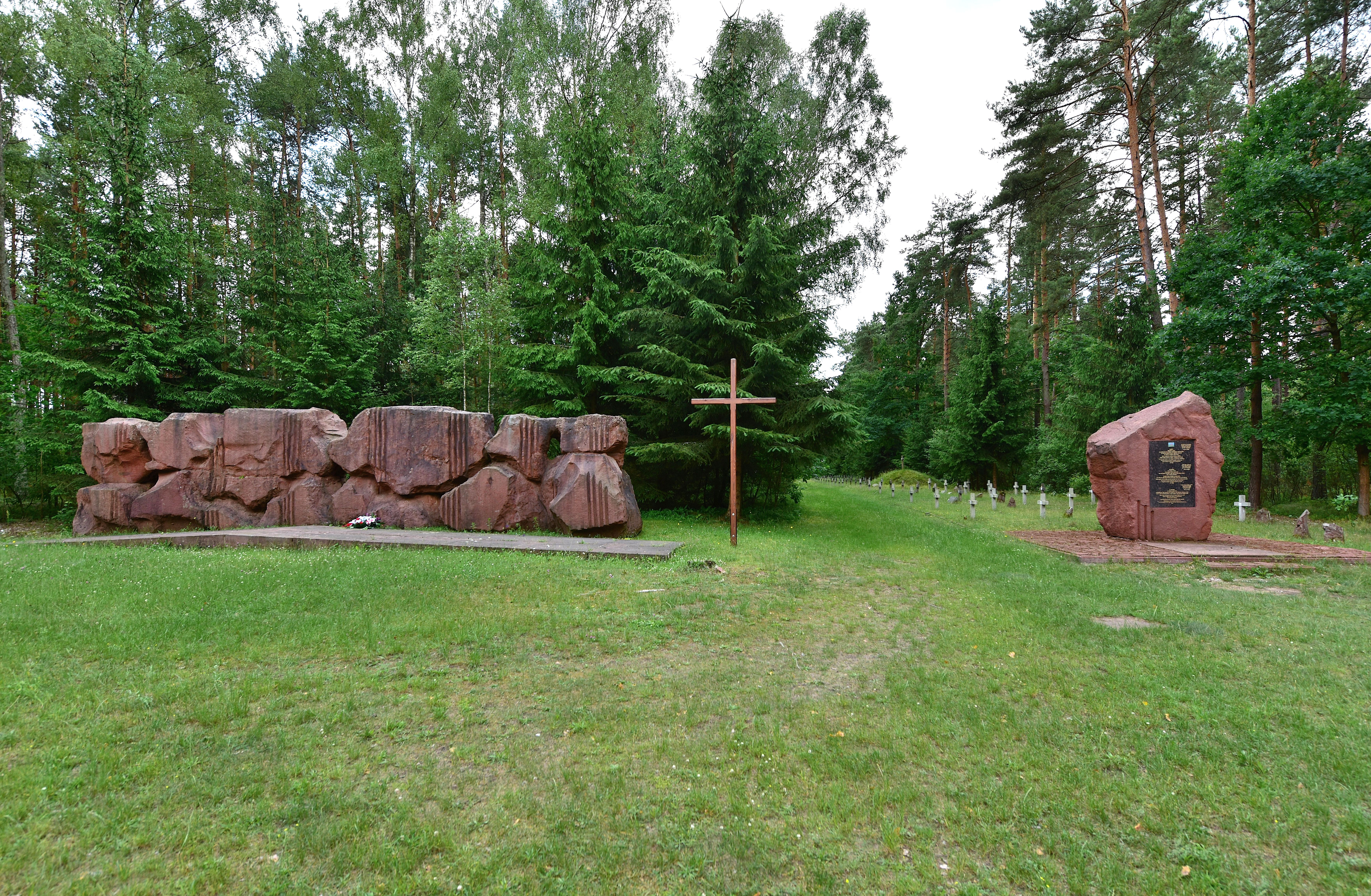 Execution site memorial in Treblinka